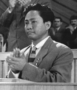 Zentralbild Ulmer 12.7.1958. V. Parteitag der SED vom 10. bis 16.7.1958 in der Werner-Seelenbinder-Halle, Berlin, 3. Tag: UBz: Eine beeindruckende Solidaritätsbekundung des Parteitages für die konsequent- und erfolgreich für die volle Gewährleistung der Unabhängigkeit ihres Landes kämpfenden Kommunisten Indonesien erlebte die Werner-Seelenbinder-Halle während der Grussansprache des Generalsekretärs der KP Indonesiens, D. N. Aidit.